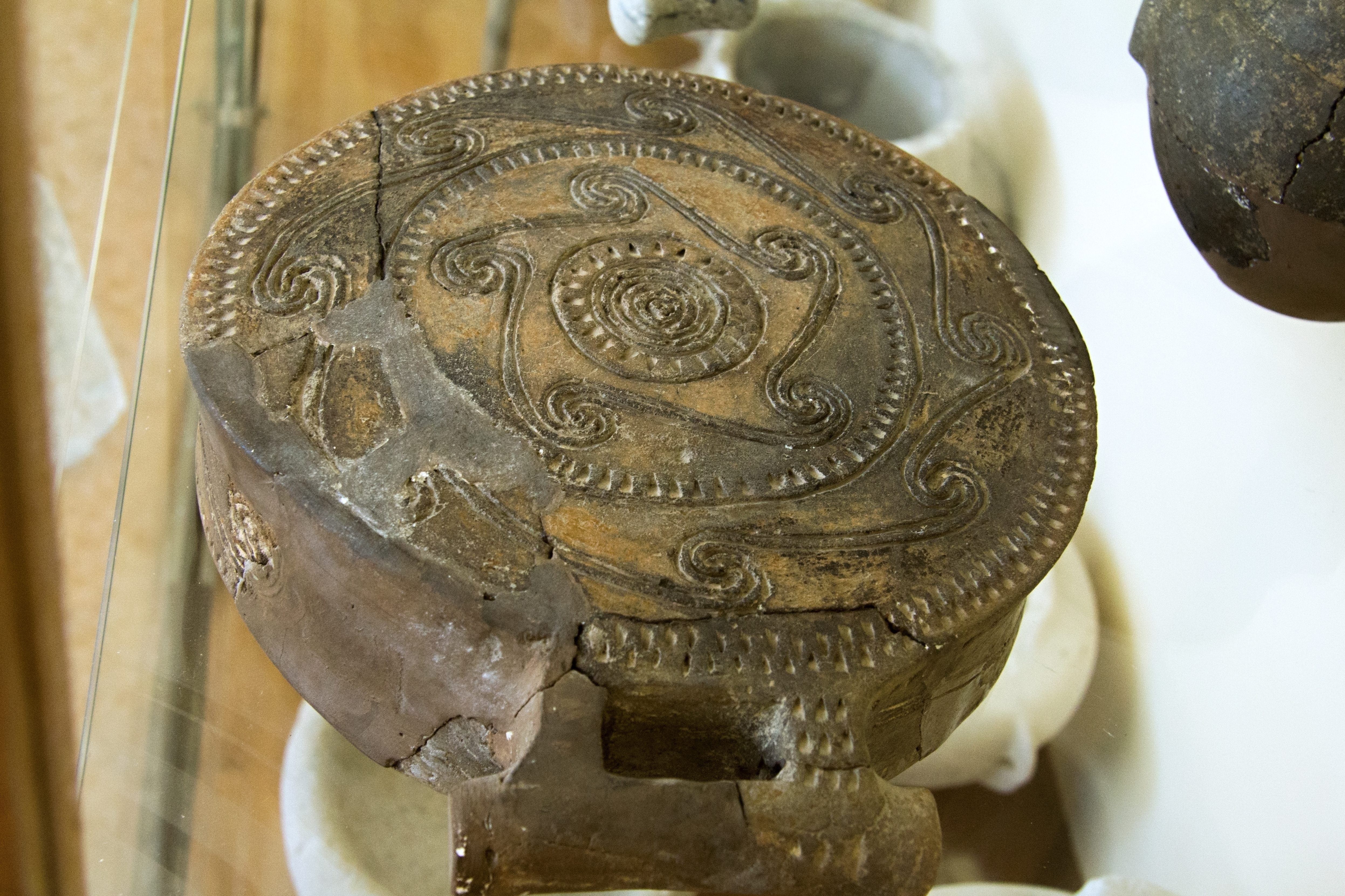 Clay Cycladic "frying-pan", "not the female" type. Early cycladic II period, 2800-2700 BC, Kampos Phase. Archaeological Museum of Paros.